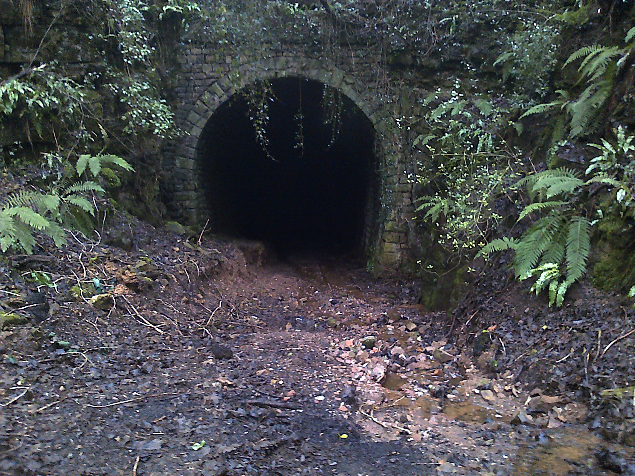 Hawthorns Tunnel, also known as Euroclydon Tunnel after the large house built on the grounds above it, is a 638-yard long tunnel built for the Mitcheldean Road & Forest of Dean Junction Railway which was completed but never fully opened. The tunnel was used by the admiralty in the 1940s to store munitions. Now in private ownership, the tunnel may one day be used by the narrow gauge Lea Bailey Light Railway.